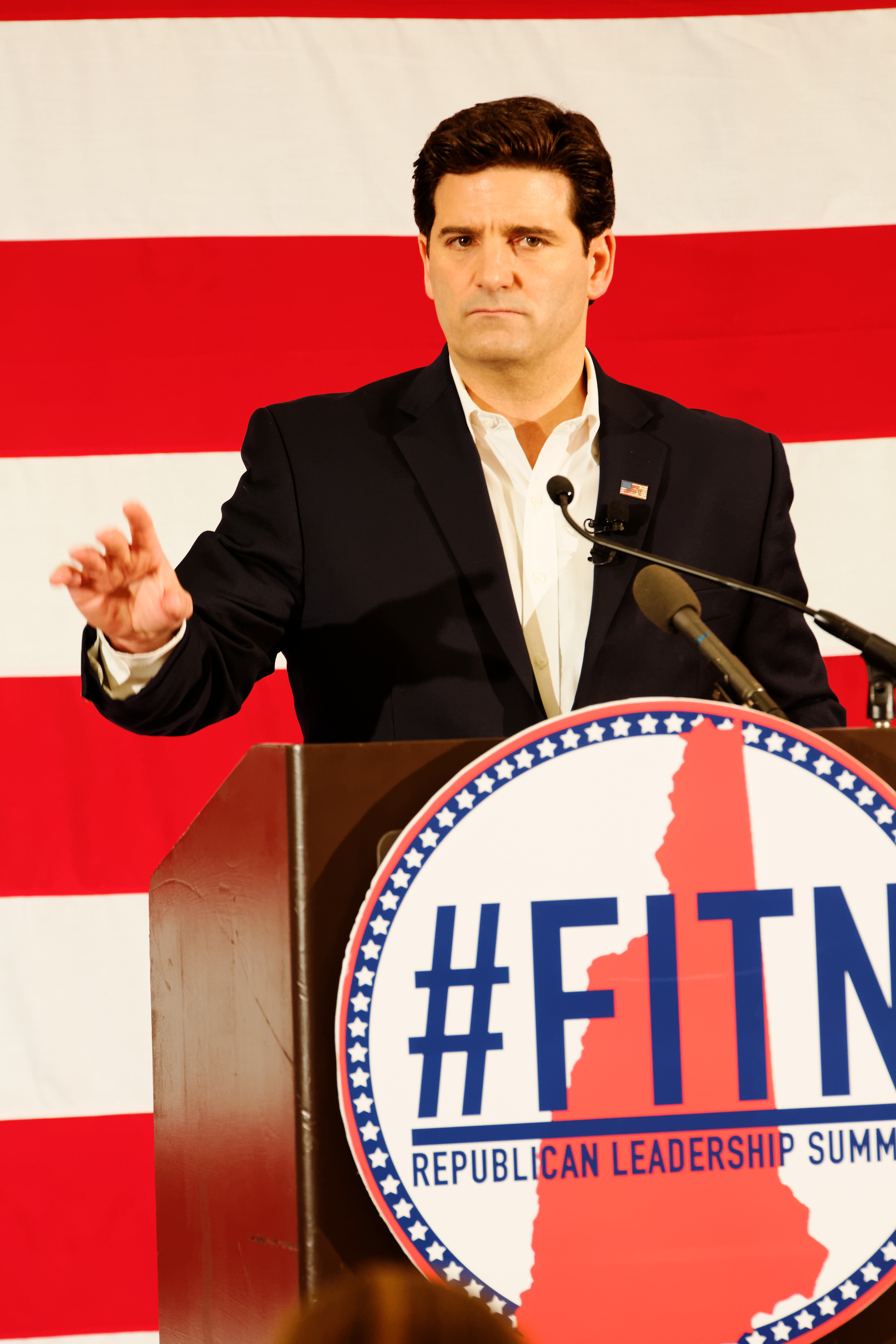 FITN First In Nation Republican Leadership Summit, Nashua, New Hampshire Crowne Plaza Nashua Address: 2 Somerset Pkwy, Nashua, NH 03063 Every four years, the political world descends upon New Hampshire to take part in the “First-in-the-Nation” Presidential Primary. On April 17th and 18th that excitement will again percolate in the Granite State for the #FITN Republican Leadership Conference. Dennis Michael Lynch (born August 28, 1969) is an American entrepreneur, documentary film maker, and conservative commentator. He often appears as a guest on Fox News, The Kelly File, and TheBlaze. Currently, he is the founder and CEO of TV360Media, a company specializing in the production and distribution of digital film.